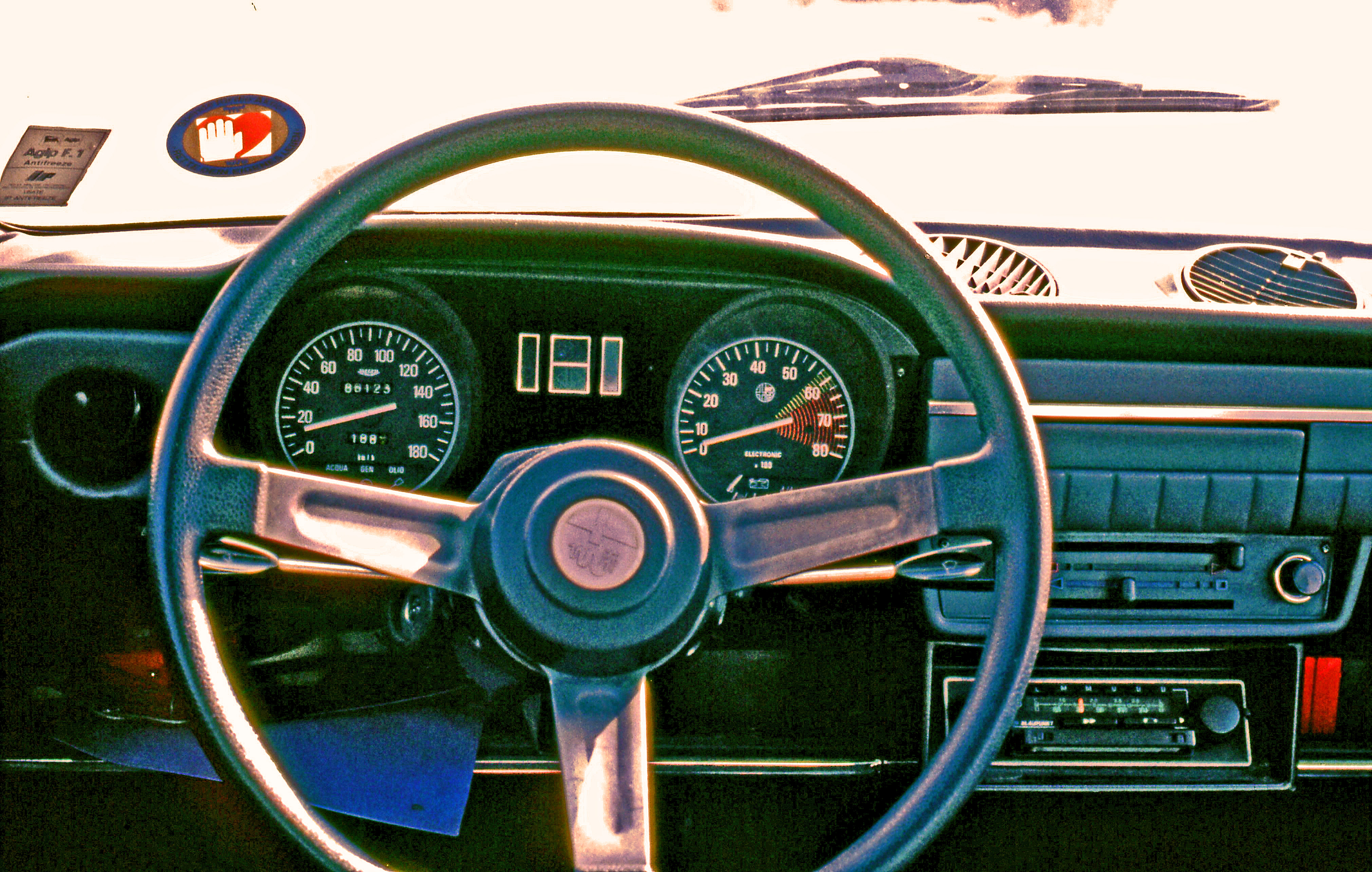 Dashboard Alfa Rome Alfasud